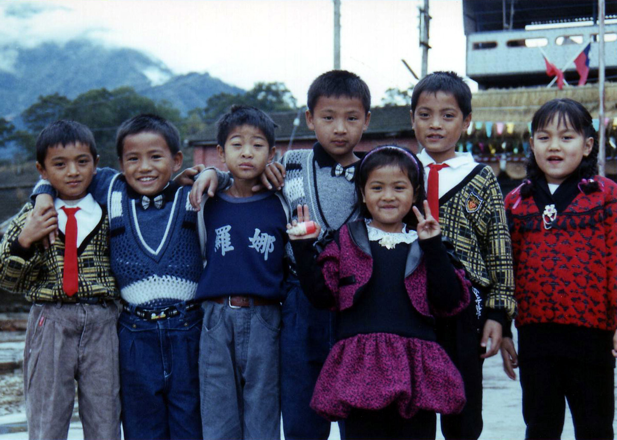 Aborigine children in Lona Village, Taiwan, ROC.Bân-lâm-gú: Tī Tiong-hua Bîn-kok Tâi-uân Lô-ná-tshuan ê guân-tsū-bîn gín-á.佇中華民國臺灣羅娜村的原住民囡仔。